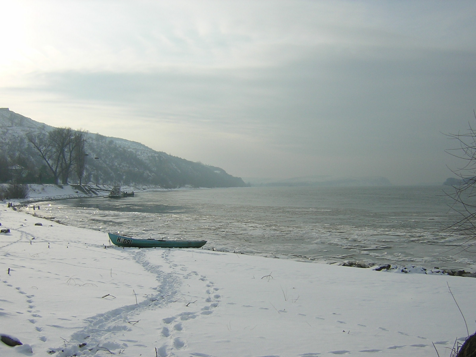 The Danube at Nikopol, Bulgaria, view towards the west in winter De Donau in Nikopol, Bulgarije. Zicht richting westen. In de winter. Le Danube à Nikopol, Bulgarie. Vue à l'ouest. En hiver. From the English wikipedia project. By User:Preslav, released as "public domain".